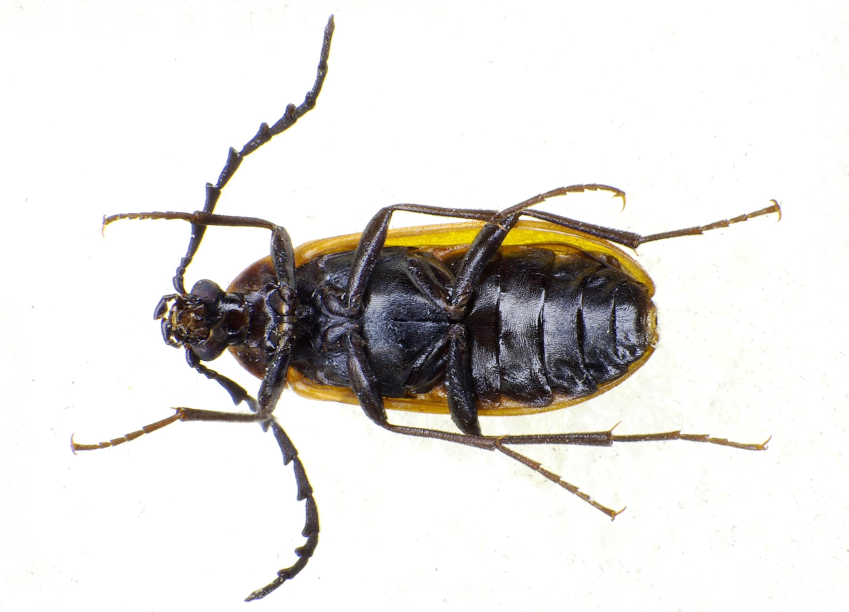 Pseudocistela ceramboides, underside